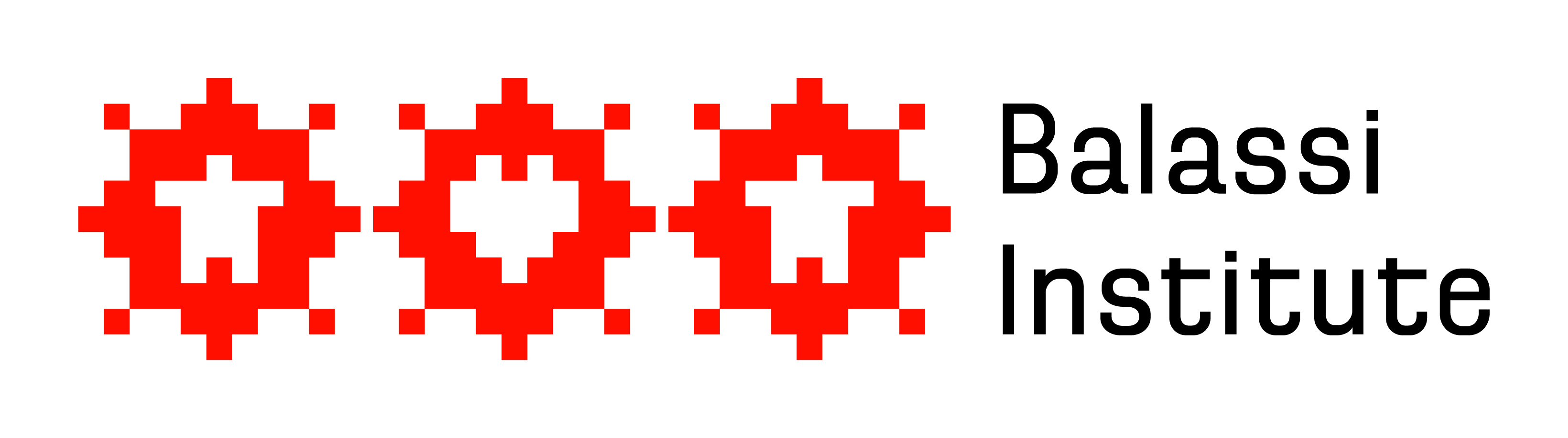 Logo of the Balassi Institute (english text)